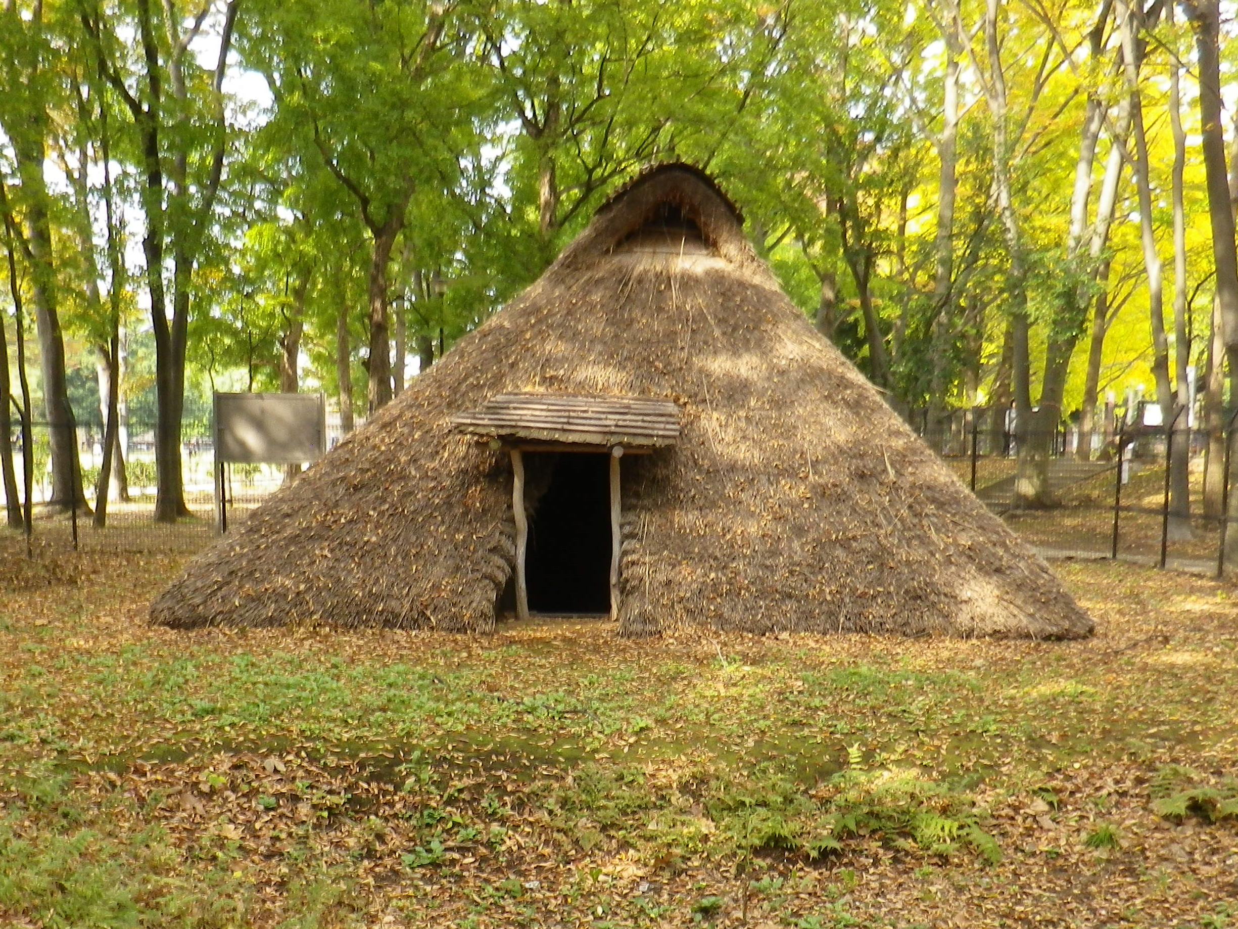 Cropped photo of the Kurihara Ruins in Tokyo.